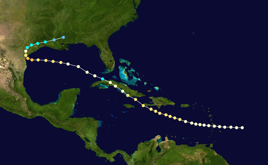 1875 Atlantic hurricane 3 track.png track. Uses the color scheme from the Saffir-Simpson Hurricane Scale.